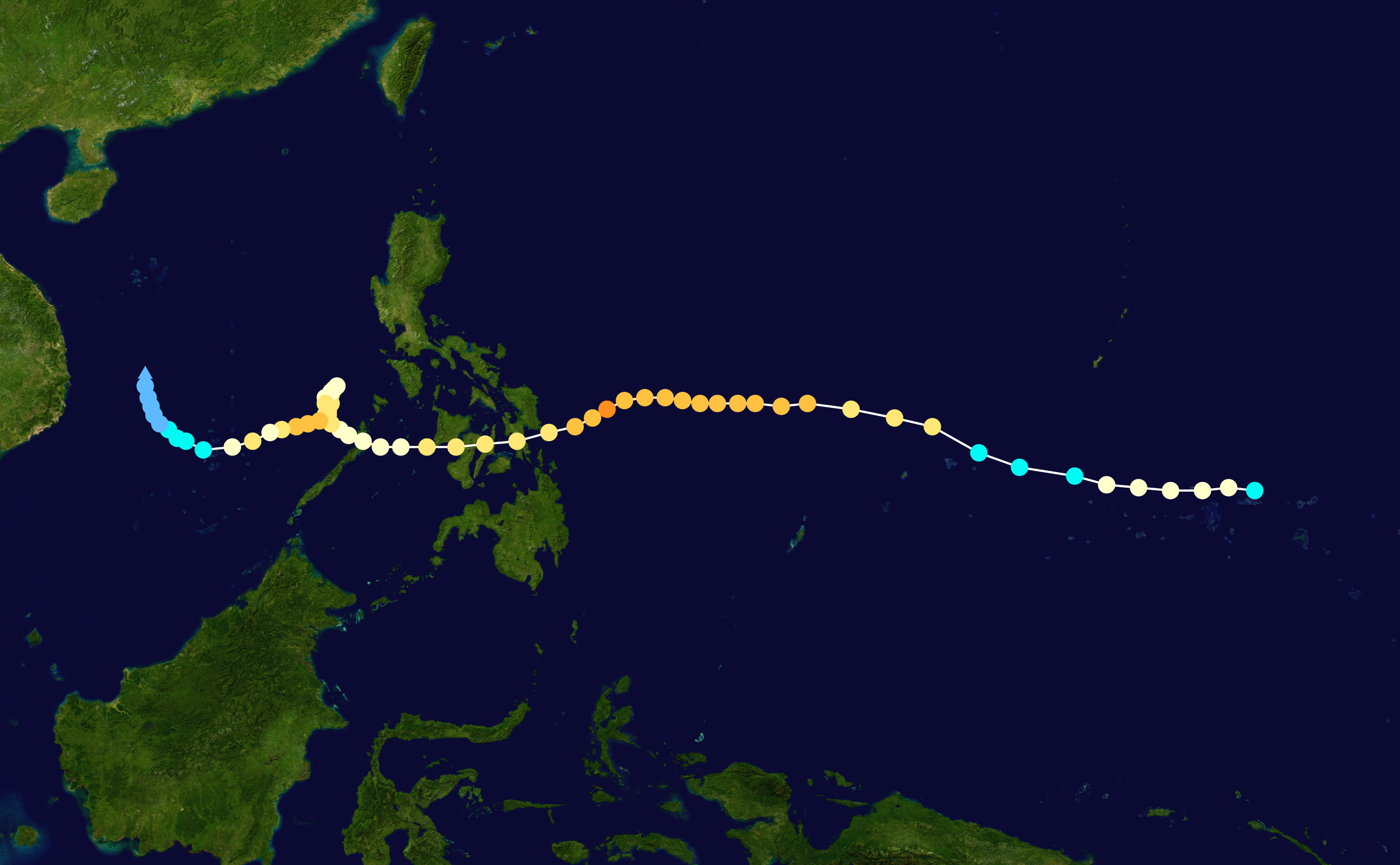 Typhoon Amy (1951) track. Uses the color scheme from the Saffir-Simpson Hurricane Scale.